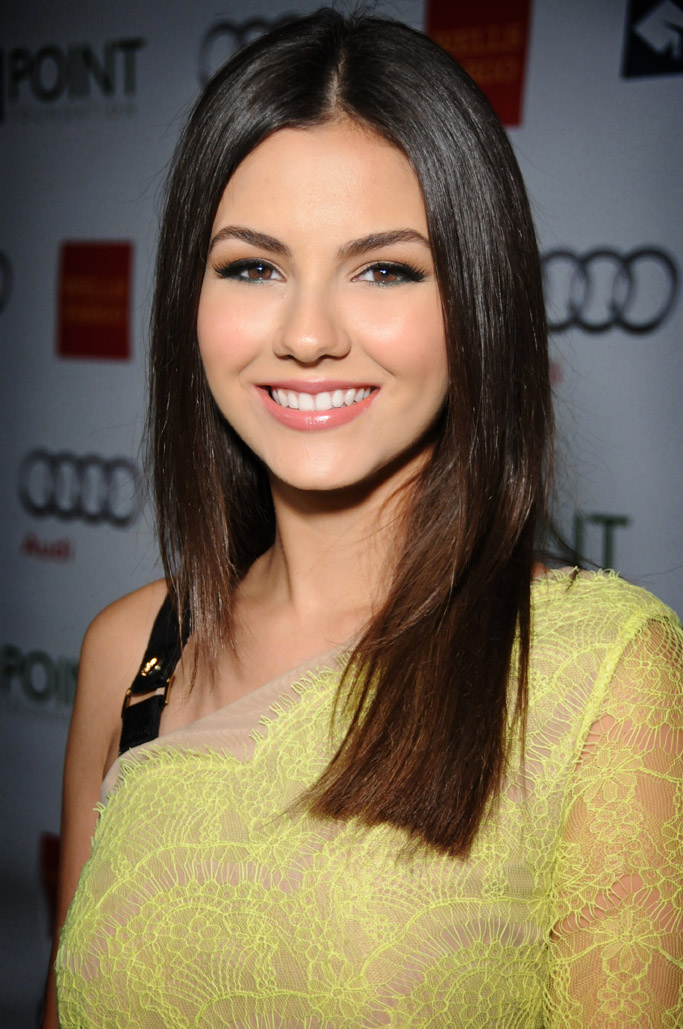 Victoria Justice, Los Angeles, California in September 2013 - Photo by Glenn Francis of